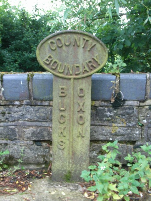 County boundary. Close-up from 468867